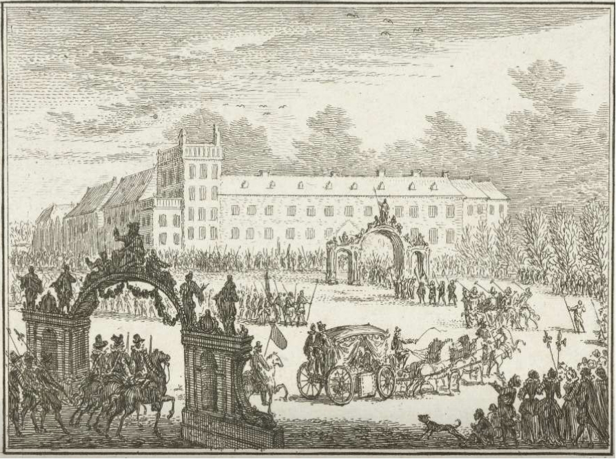 parade of Leicester te Den Haag, 1586